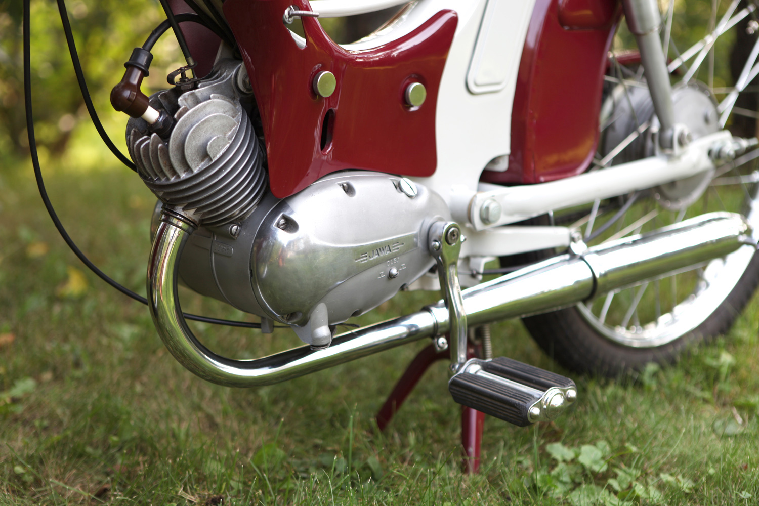 USSR moped « Riga-1», Riga motorcycle factory 1962